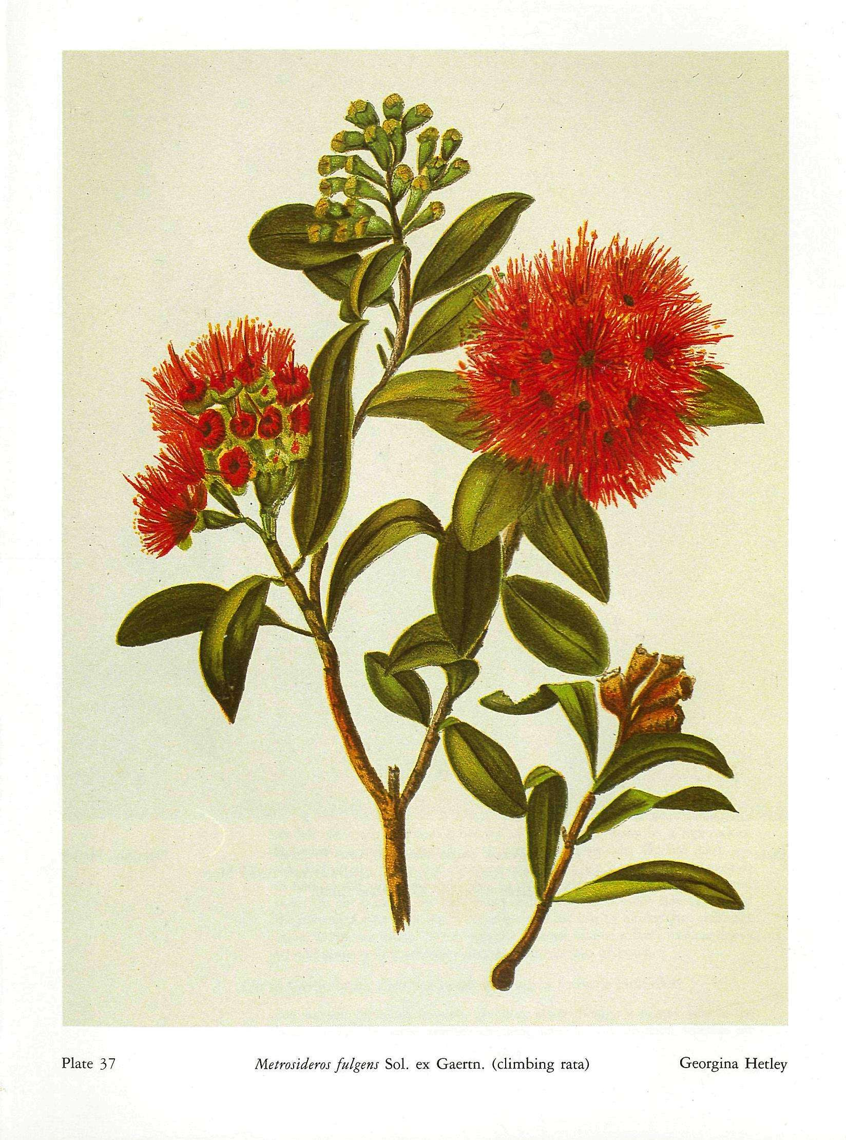 Plate 37 Metrosideros fulgens Sol. ex Gaertn. (climbing rata) by Georgina Burne Hetley (1832-1898) in The Native Flowers of New Zealand